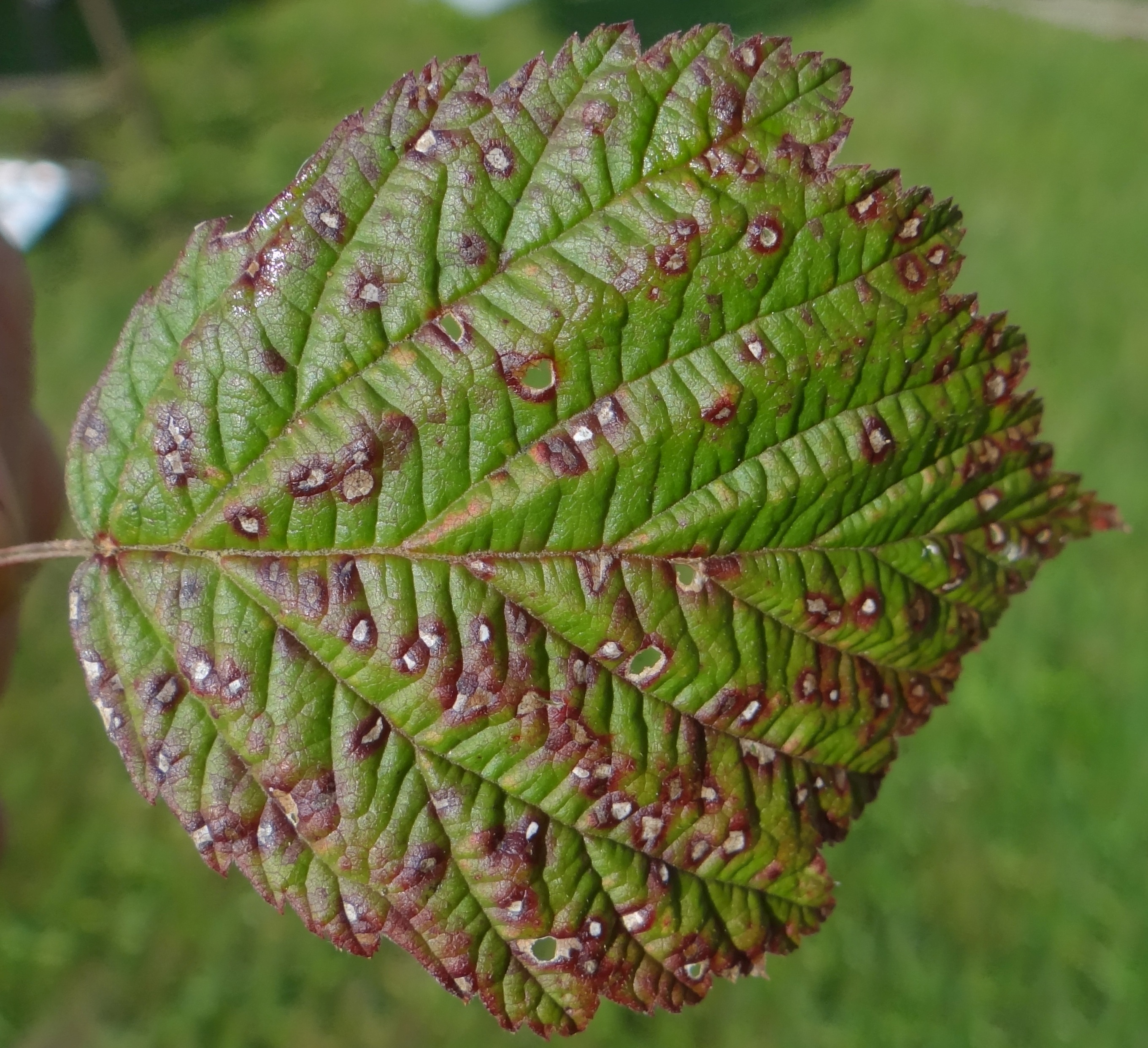 Elsinoë veneta on Rubus sp. (location: Poland, Żegocina)